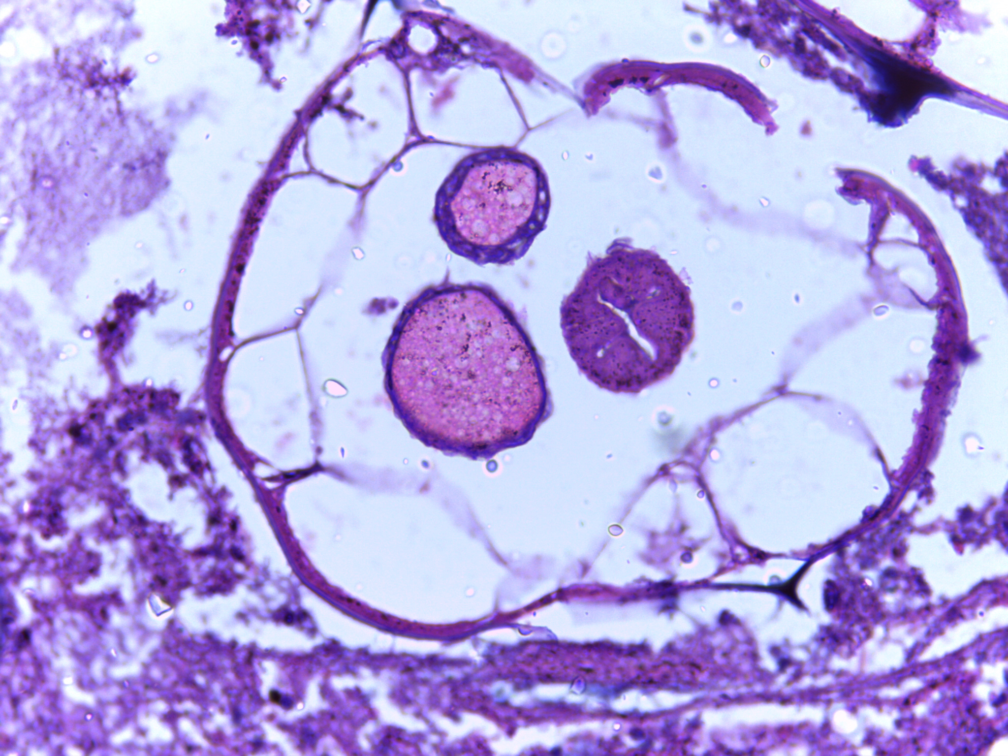 Micrograph showing lumen of appendix and cut section of pin worm. H&E stain.